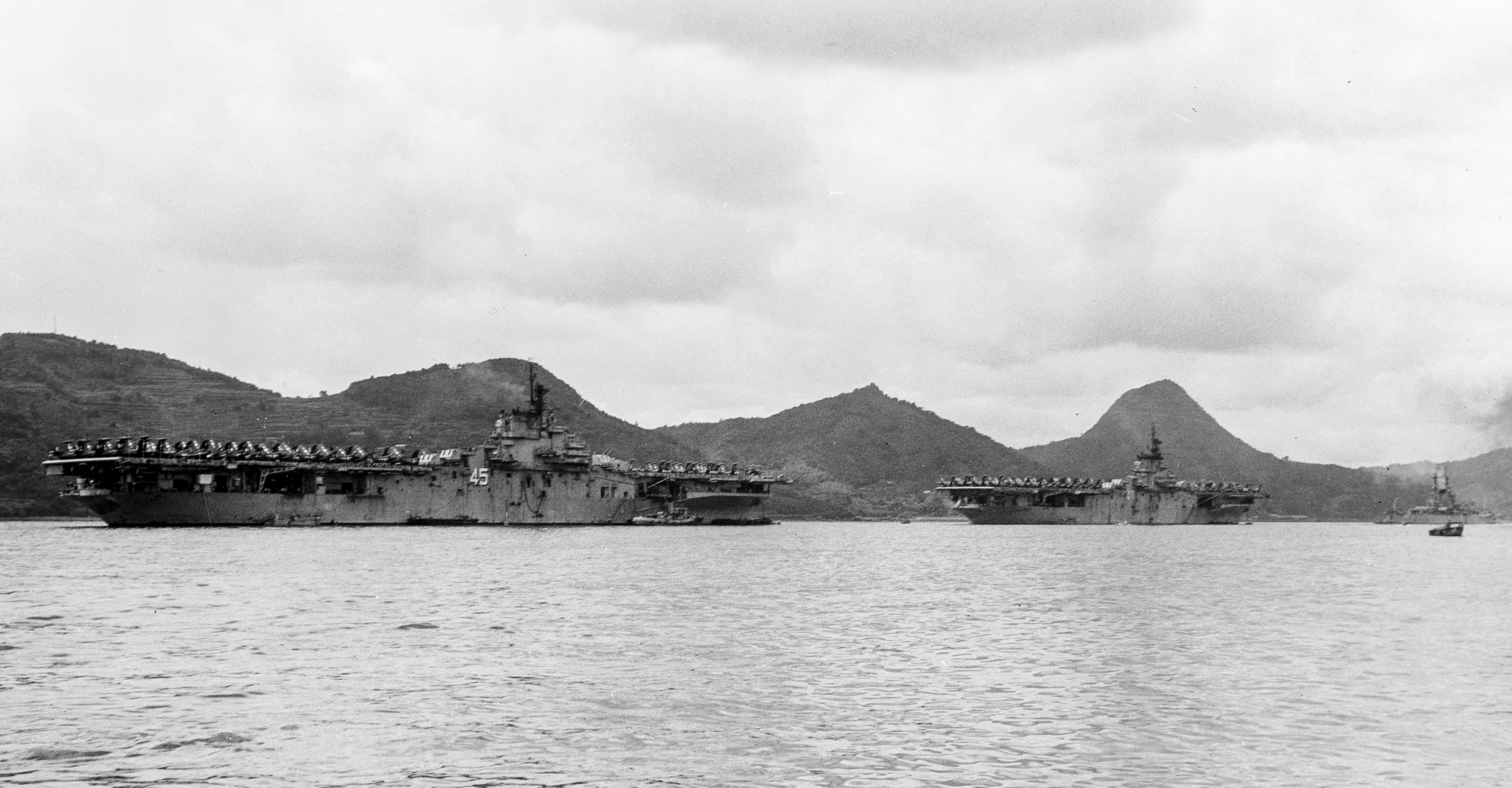 The U.S. Navy aircraft carriers USS Valley Forge (CV-45) (left) and USS Philippine Sea (CV-47) (center) at their anchorages at Sasebo, Japan, during Korean War resupply activities, 23 August 1950. The heavy cruiser in the right distance is USS Rochester (CA-124). Valley Forge, with assigned Carrier Air Group 5 (CVG-5), was deployed to the Western Pacific and Korea from 1 May to 1 December 1950. Philippine Sea, with assigned CVG-11, was deployed to Korea from 5 July 1950 to 26 March 1951, and with CVG-2 from 28 March to 9 June 1951.